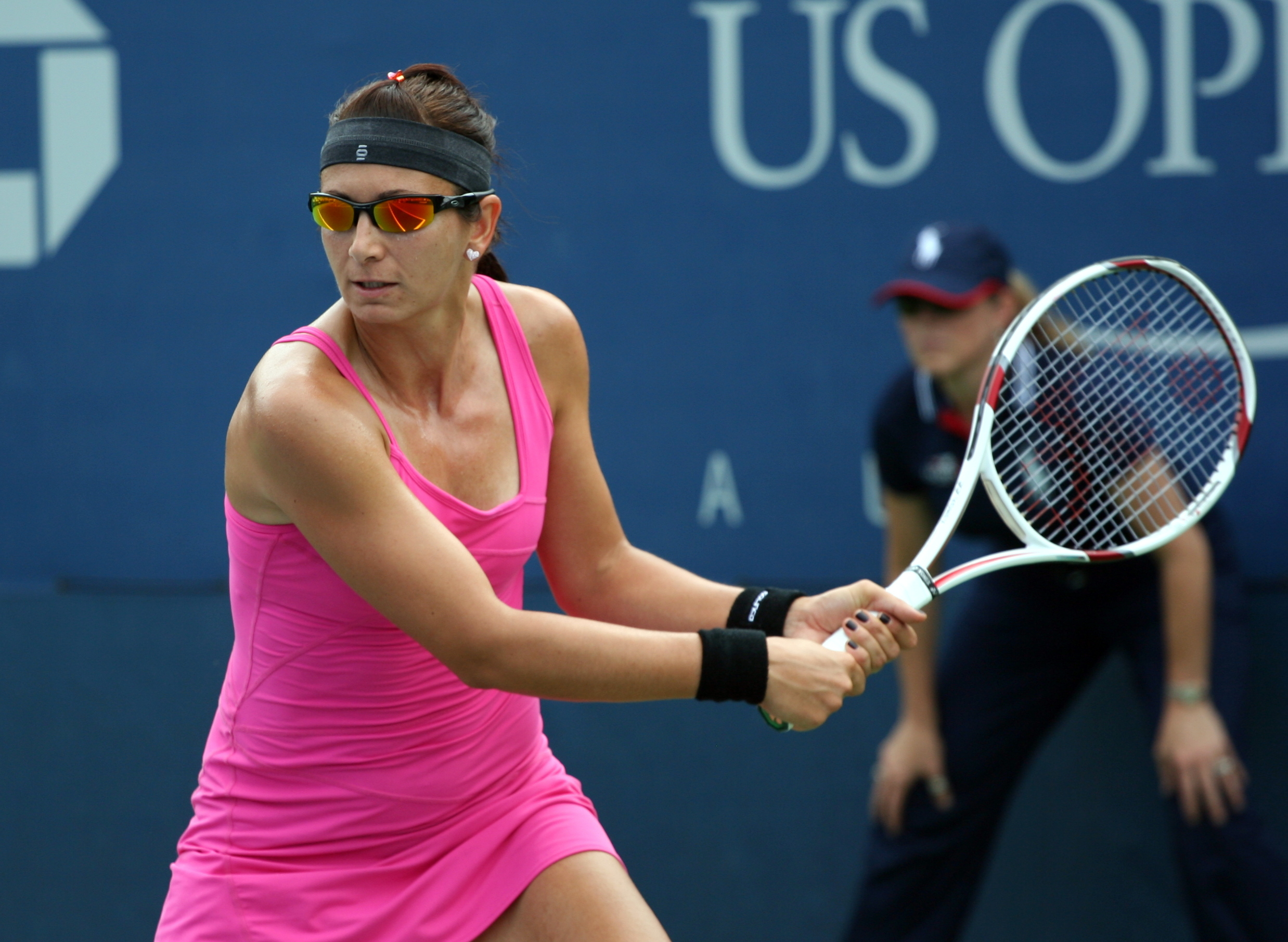 Darija Jurak at the 2013 US Open; Thursday, August 29